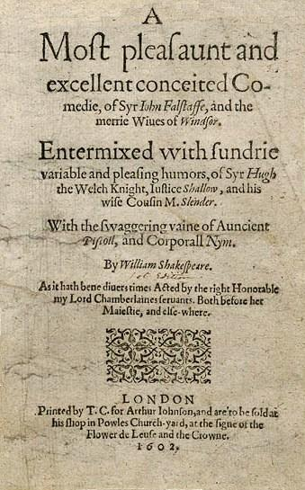 Ttitle page of the first quarto of shakespeare's Merry Wives of Windsor